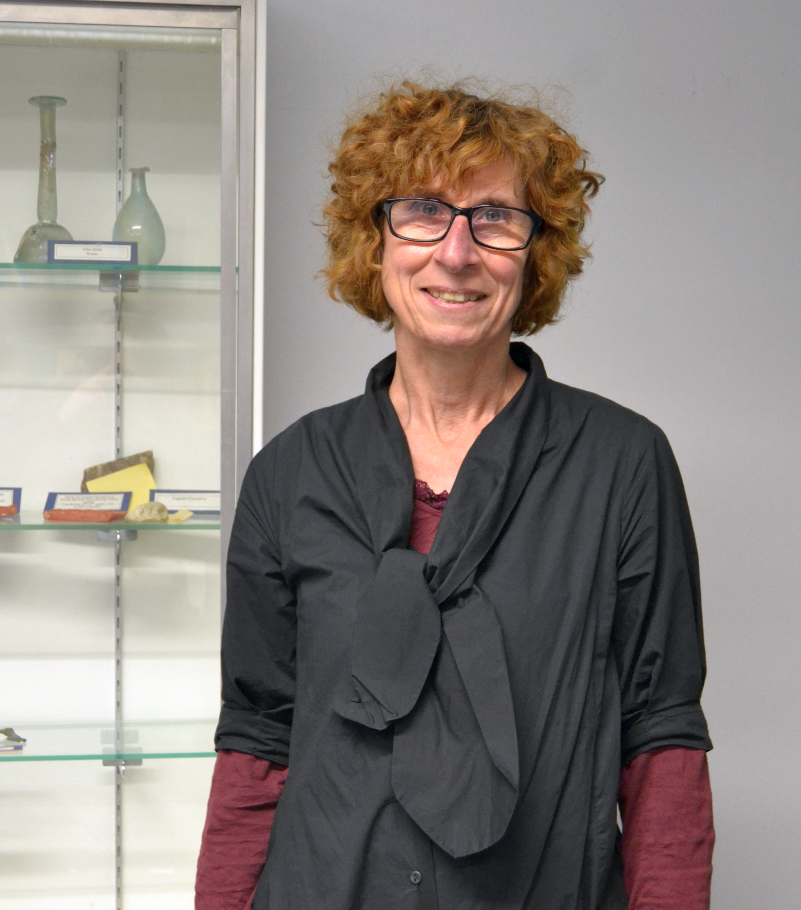 Swiss Numismatist and Achaeologist Suzanne Frey-Kupper in October 2019 at University of Warwick.